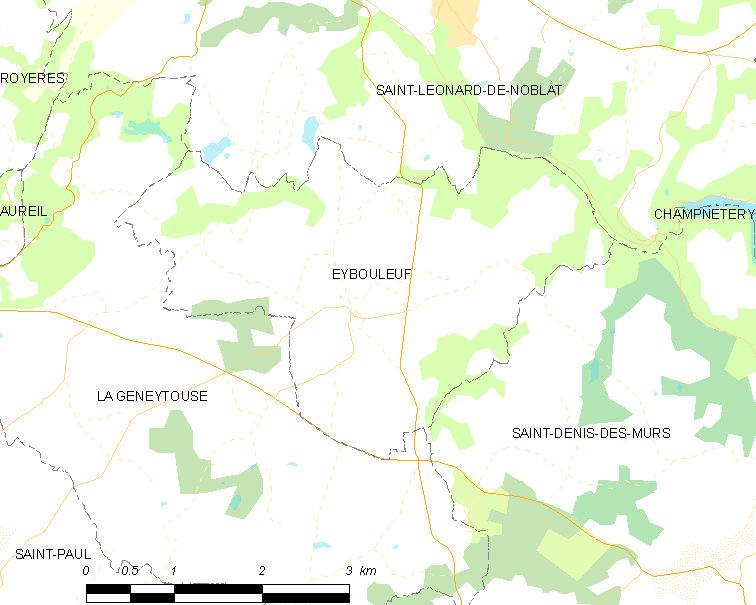 Map of French municipality Eybouleuf